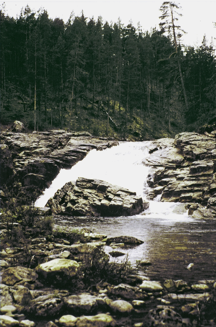 Ravadasköngäs waterfall in Lemmenjoki National Park, Inari, Finland